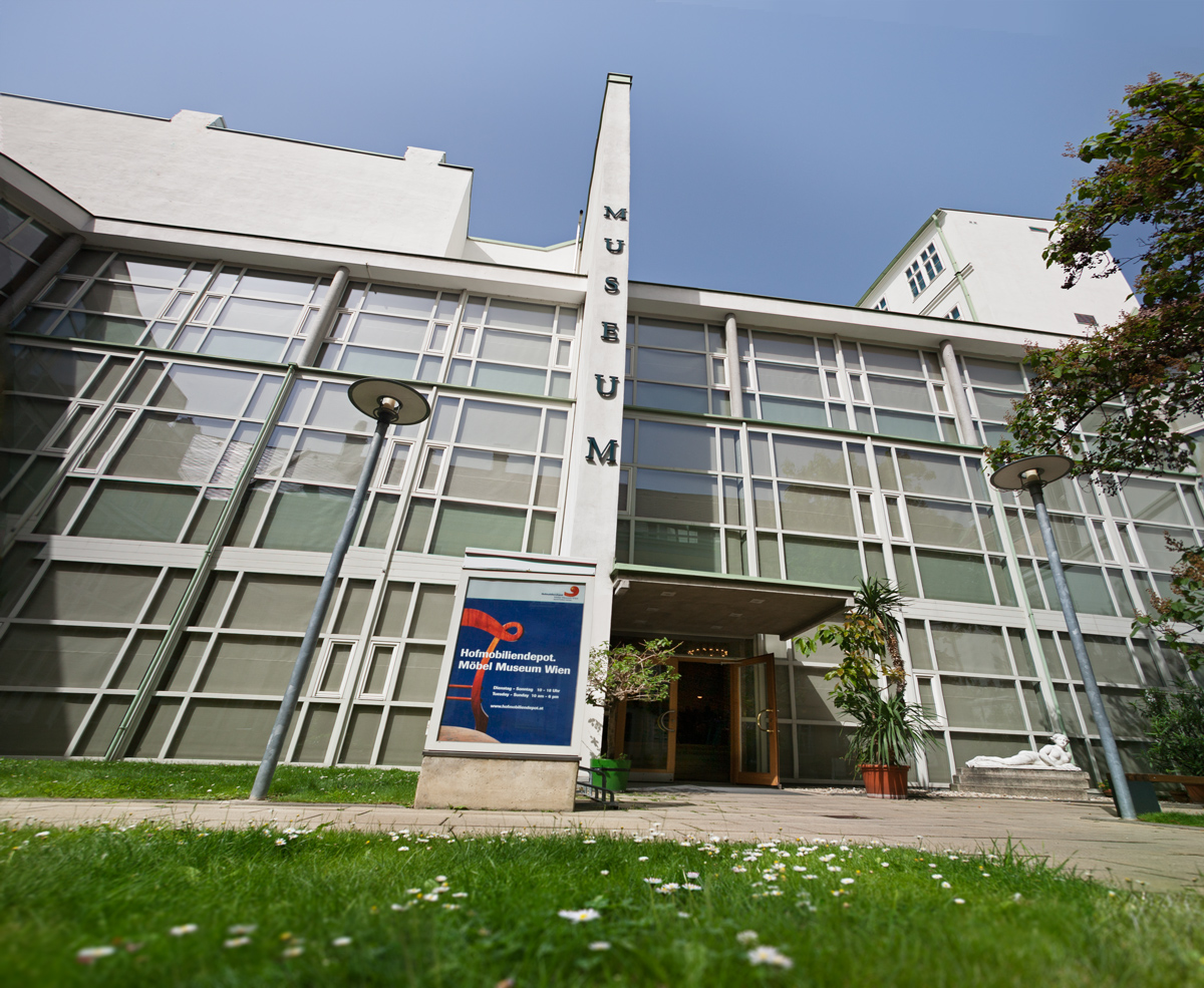 Imperial Furniture Museum Vienna 7, Andreasgasse 7, Main entrance in the courtyard